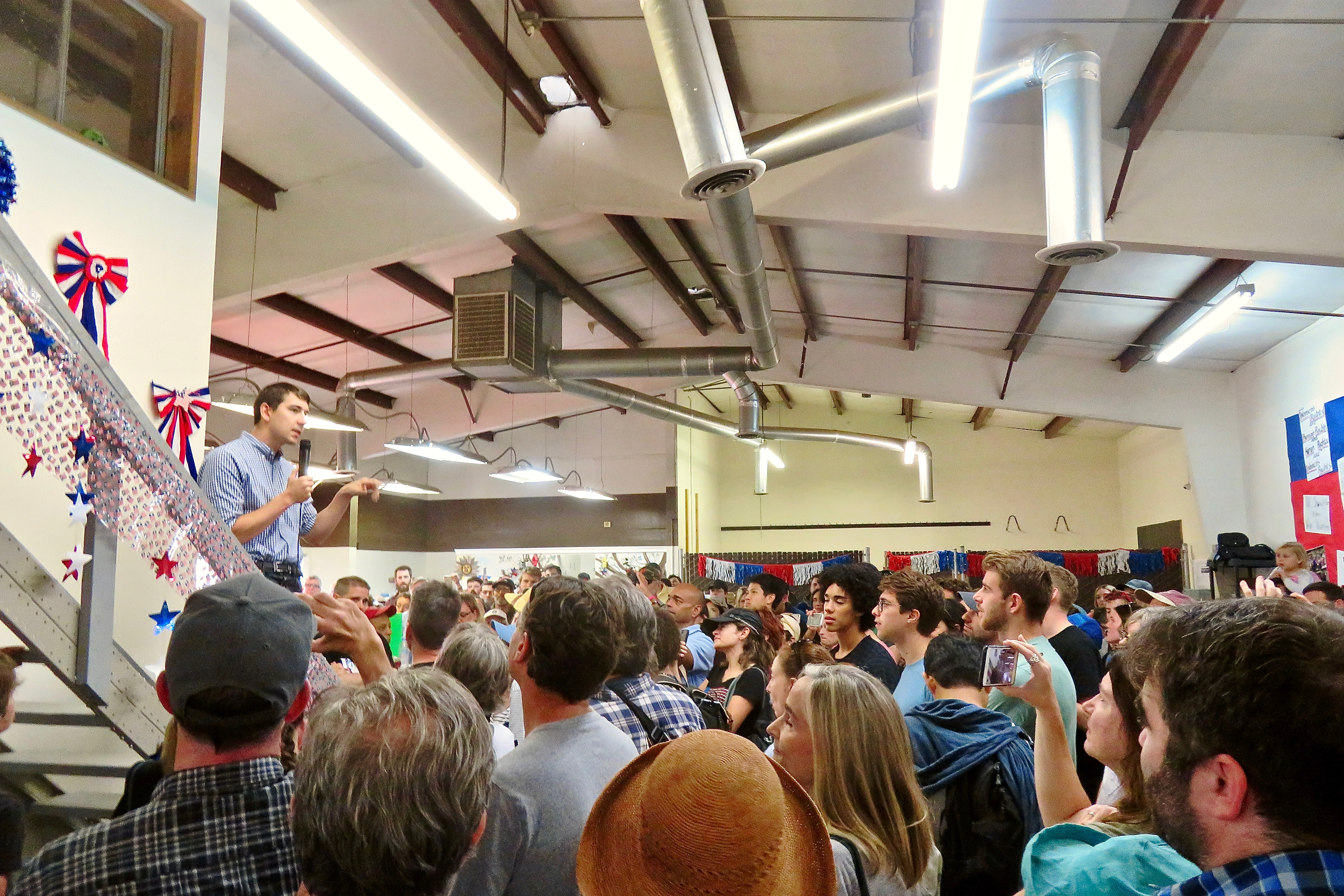 Getting out the vote for Josh Harder in Modesto